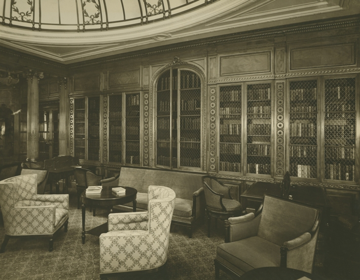 This photograph shows the bookcase in the library of the Mauretania. Situated on the boat deck, along with a lounge, music room and smoking room, the library was one of many first-class facilities on board the ship. The Mauretania was built by the shipbuilders Swan Hunter and Wigham Richardson Ltd, at the Wallsend shipyard and was one of the most famous ships ever built on Tyneside. Ref: TWAS: DS.SWH/4/PH/7/6/9 (Copyright) We're happy for you to share this digital image within the spirit of The Commons. Please cite 'Tyne & Wear Archives & Museums' when reusing. Certain restrictions on high quality reproductions and commercial use of the original physical version apply though; if you're unsure please . To purchase a hi-res copy please quoting the title and reference number.